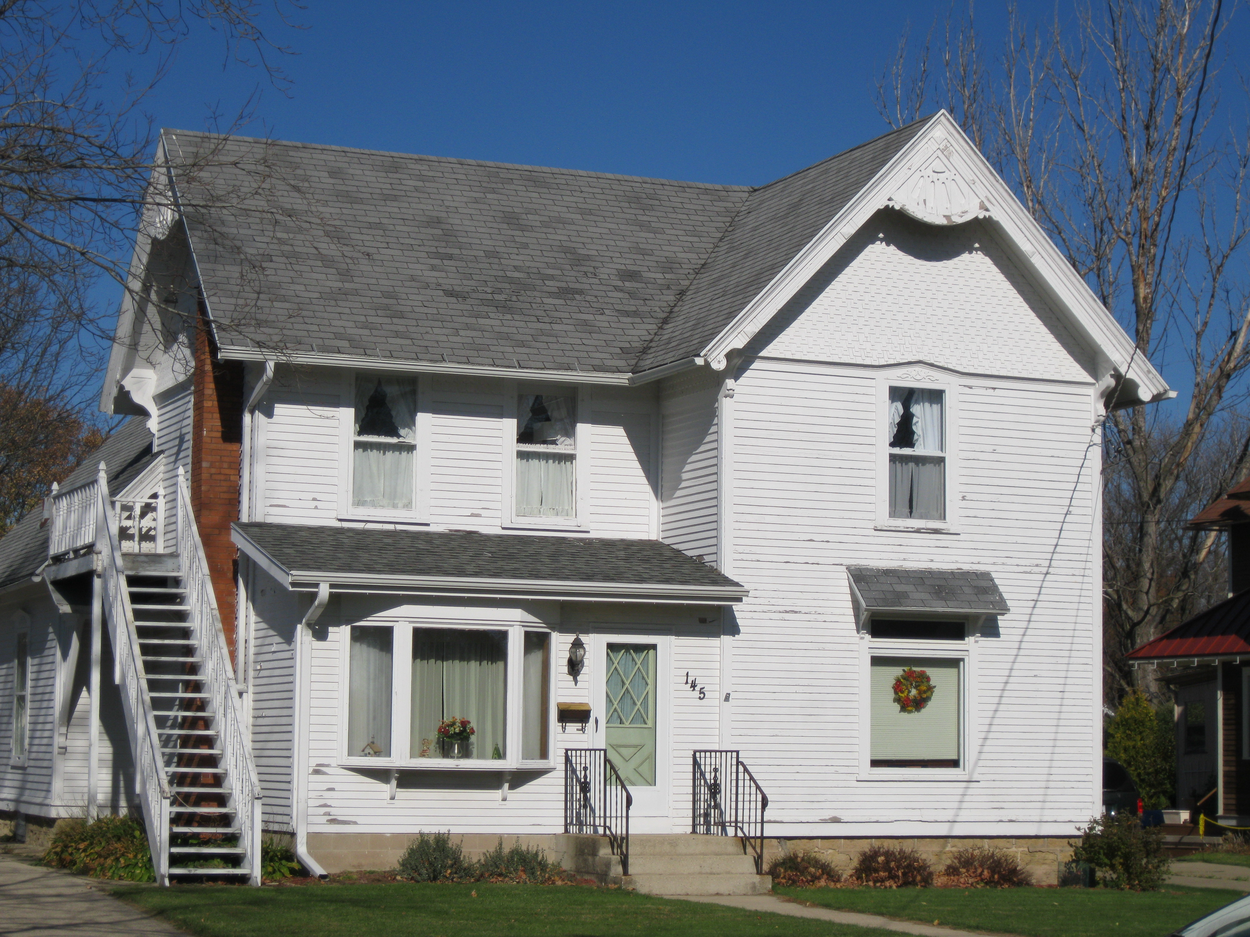 The Algard House, located at 145 W. Lincoln Street in the Lincoln Street Historic District in Oregon, Wisconsin.